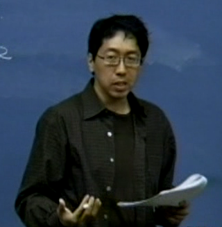 Andrew Ng giving a lecture at Stanford University for the course CS 229, Machine Learning